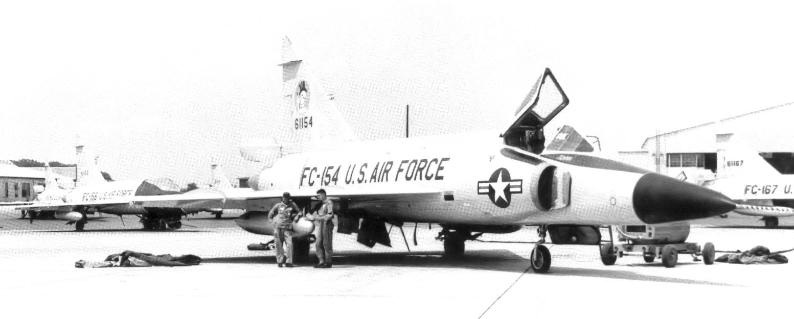 95th Fighter-Interceptor Squadron Convair F-102A-65-CO Delta Dagger 56-1154 85th Air Division, Andrews Air Force Base, Maryland, March 1958